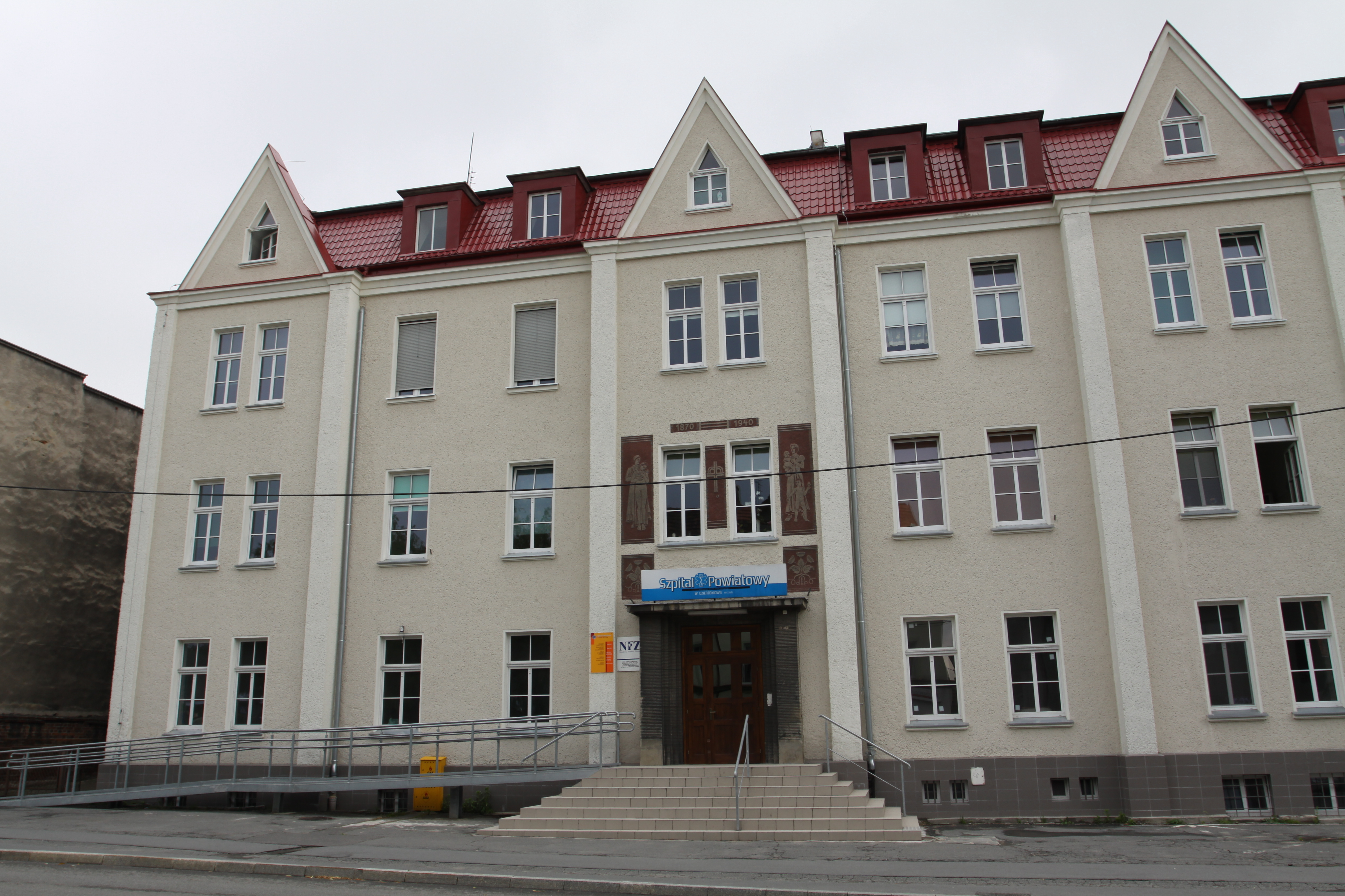 Bielawa, a town in south-western Poland situated in Dzierżoniów County, Lower Silesian Voivodeship